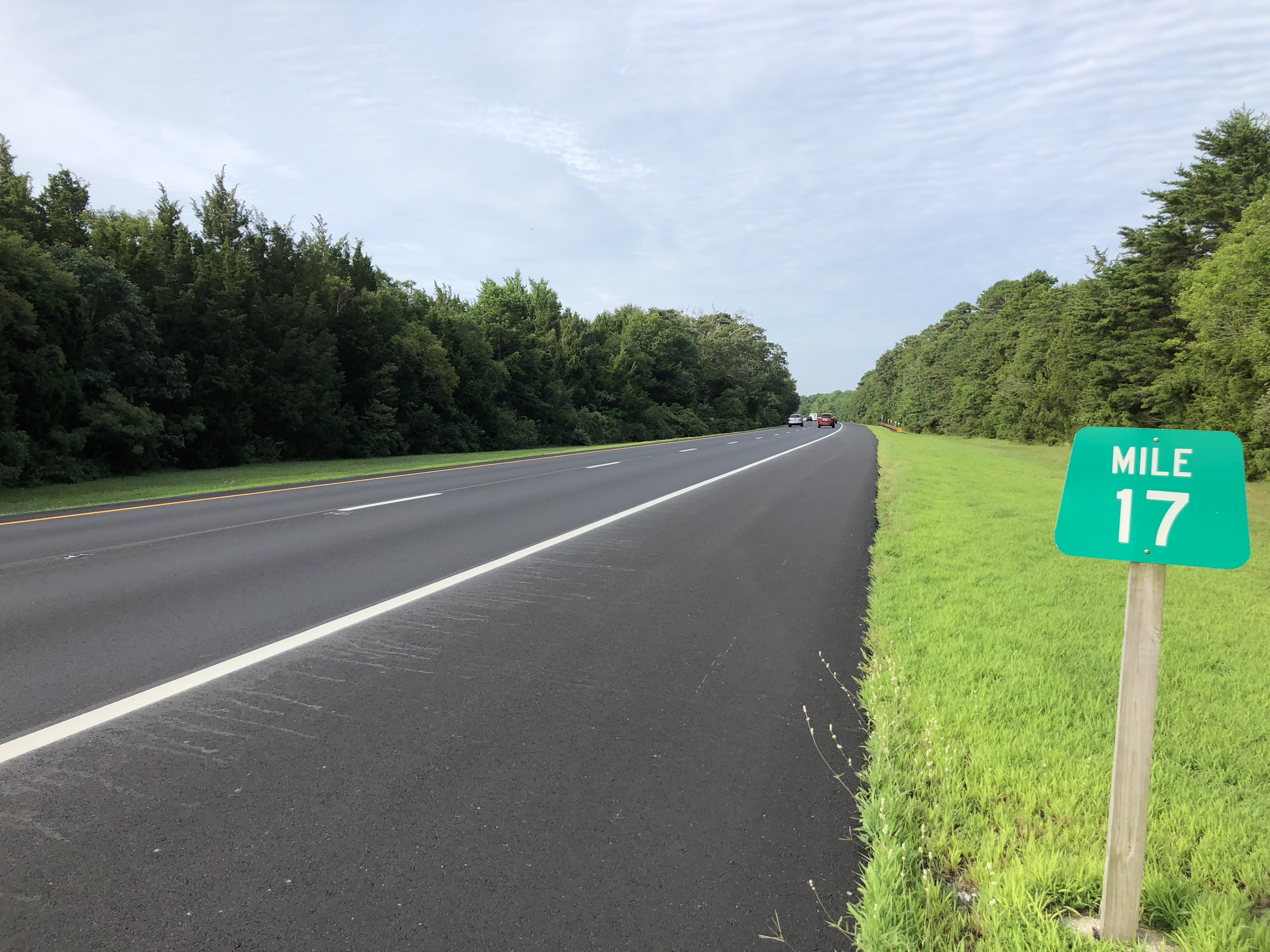 View south along New Jersey State Route 444 (Garden State Parkway) just south of Exit 17 in Dennis Township, Cape May County, New Jersey